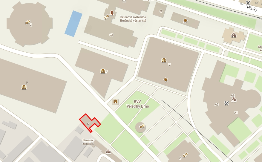 Destroyed pavilion K on the map of the Brno Exhibition Grounds.